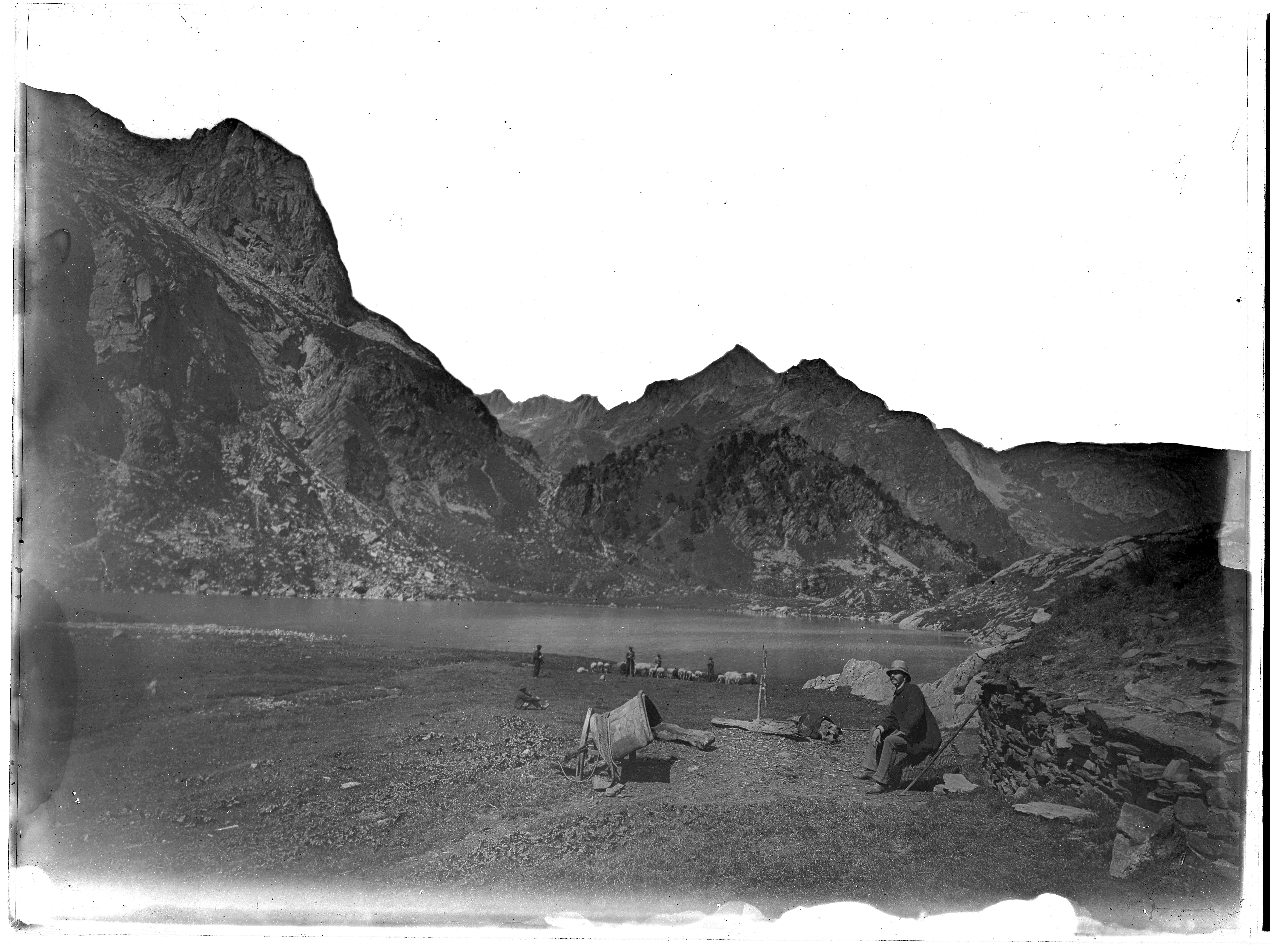 Lake of Espingo, Luchon